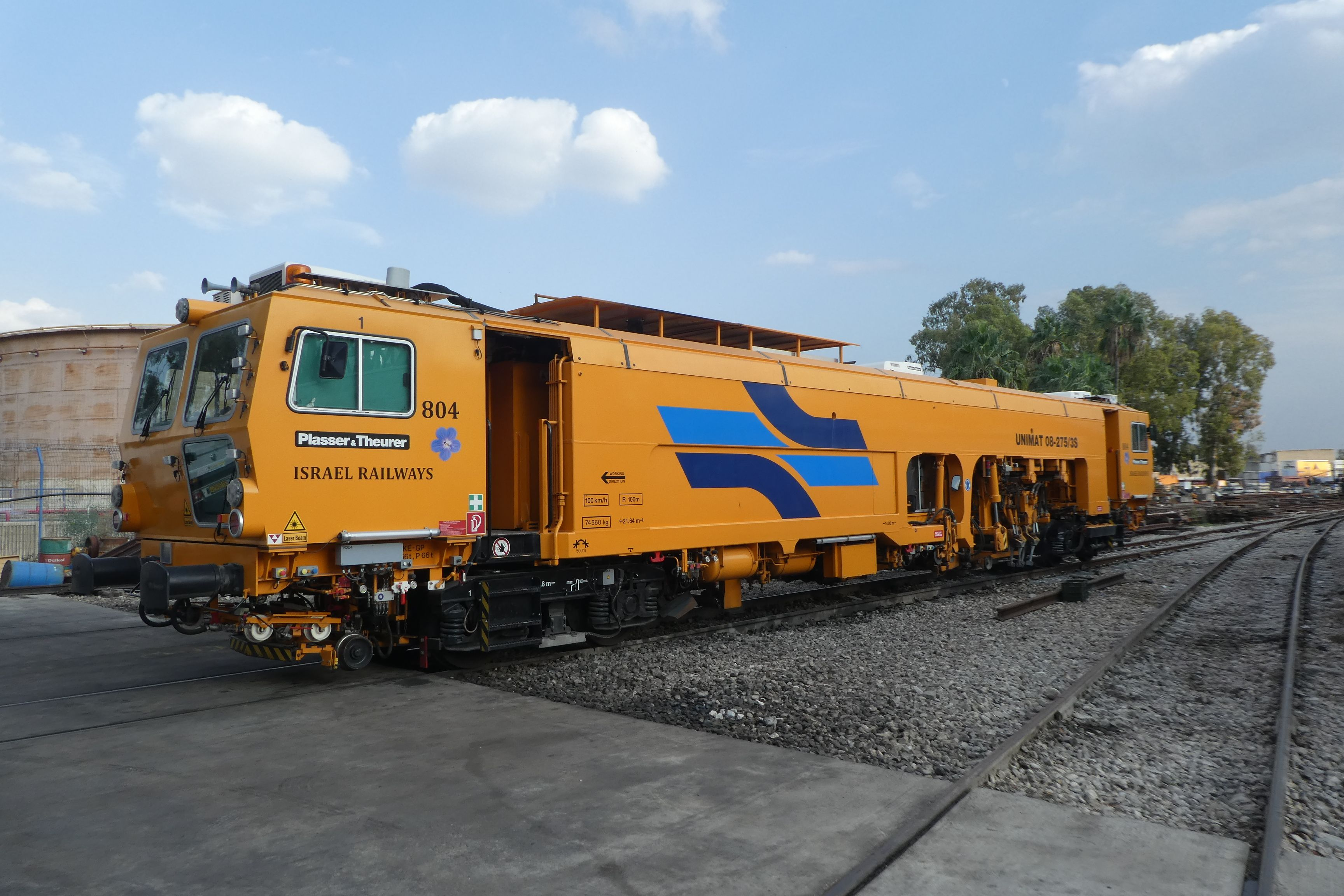 Tamping machine (number 804) produced by Plasser & Theurer 08-275 UNIMAT 3S. Israel Railways.